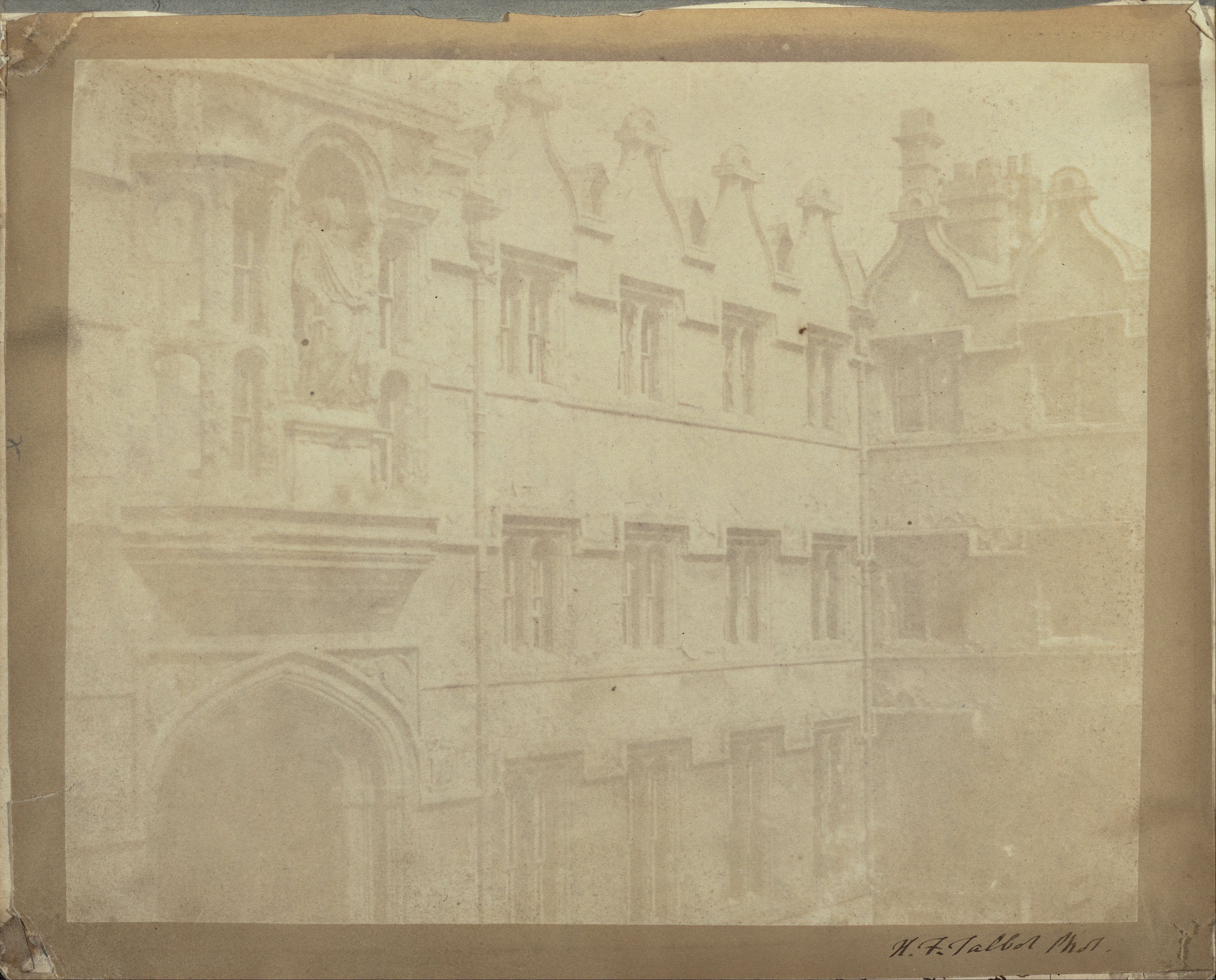 View of the Radcliffe Quadrangle, University College, Oxford, England.